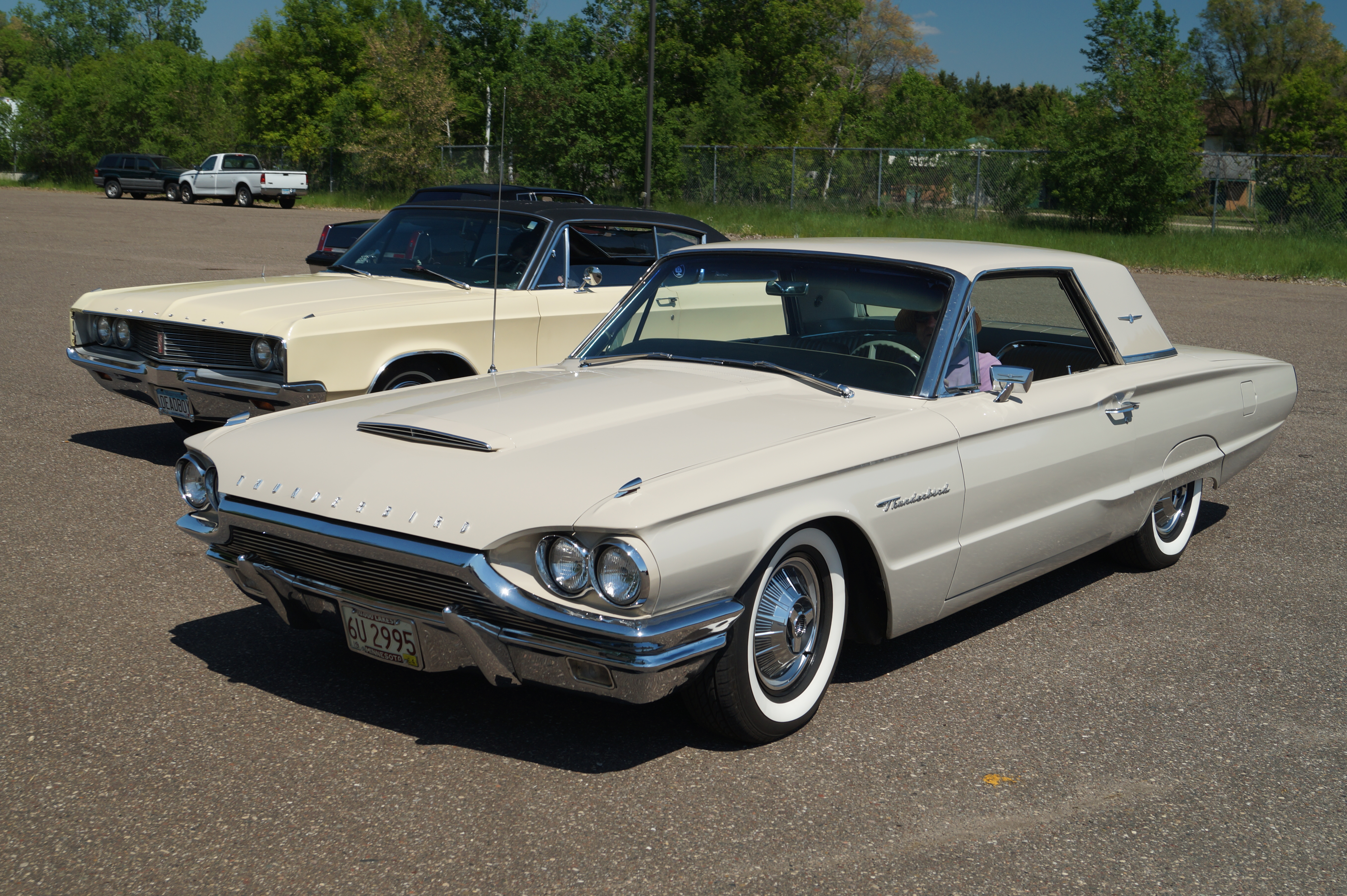 Click here for more car pictures at my Flickr site. Oldsmobile Club of America Minnesota Chapter 4th Annual Spring Dust Off Car Show & Swap Meet Unique Classics on 65 Ham Lake, Minnesota